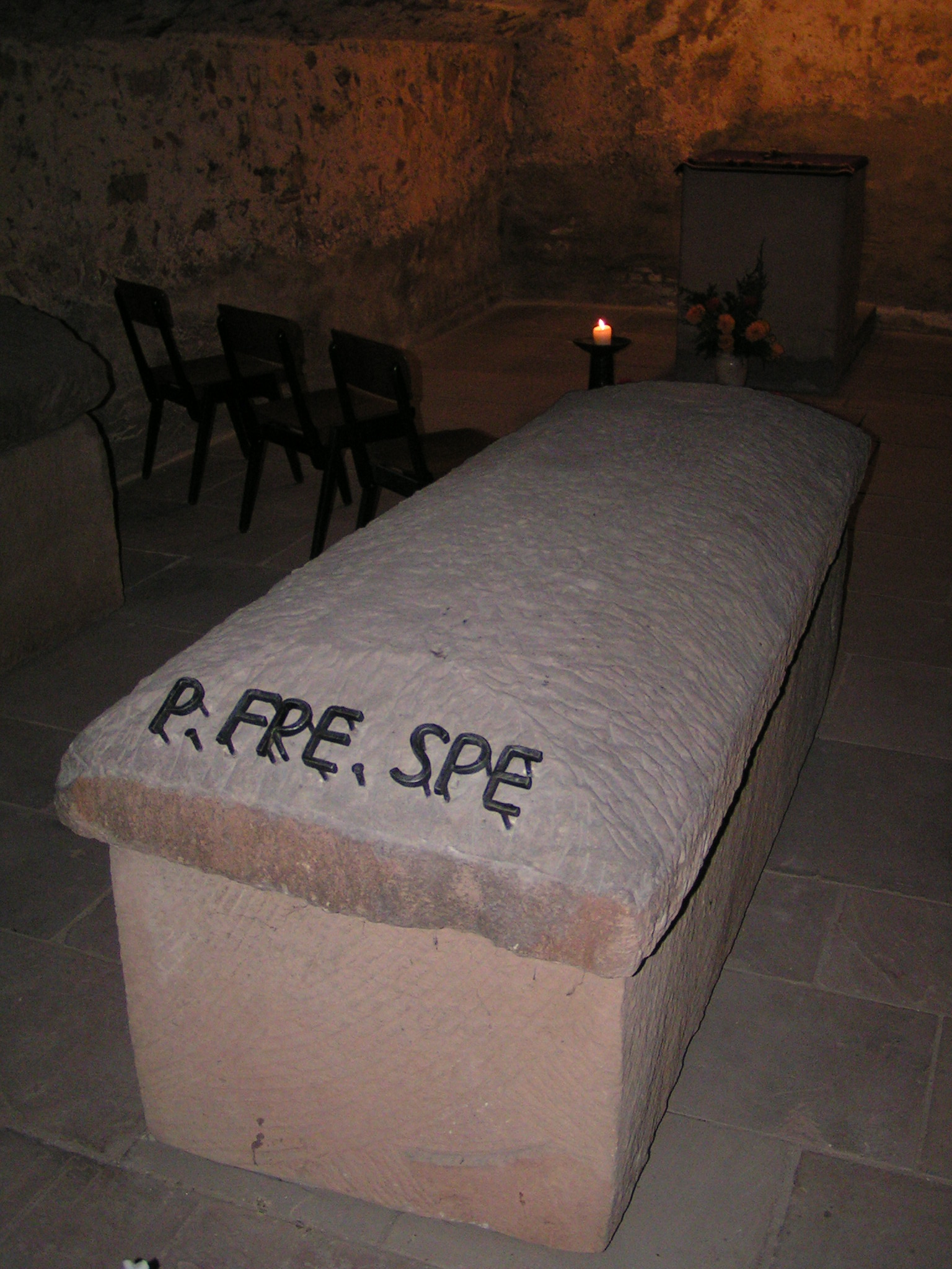 Jesuitenkirche, Trier, Germany